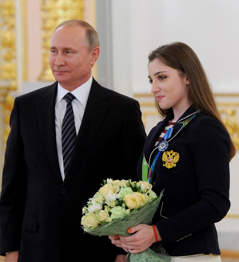 Vladimir Putin presented state awards to the Russian athletes who won gold medals at the 2016 Olympic Games in Rio de Janeiro (Brazil).